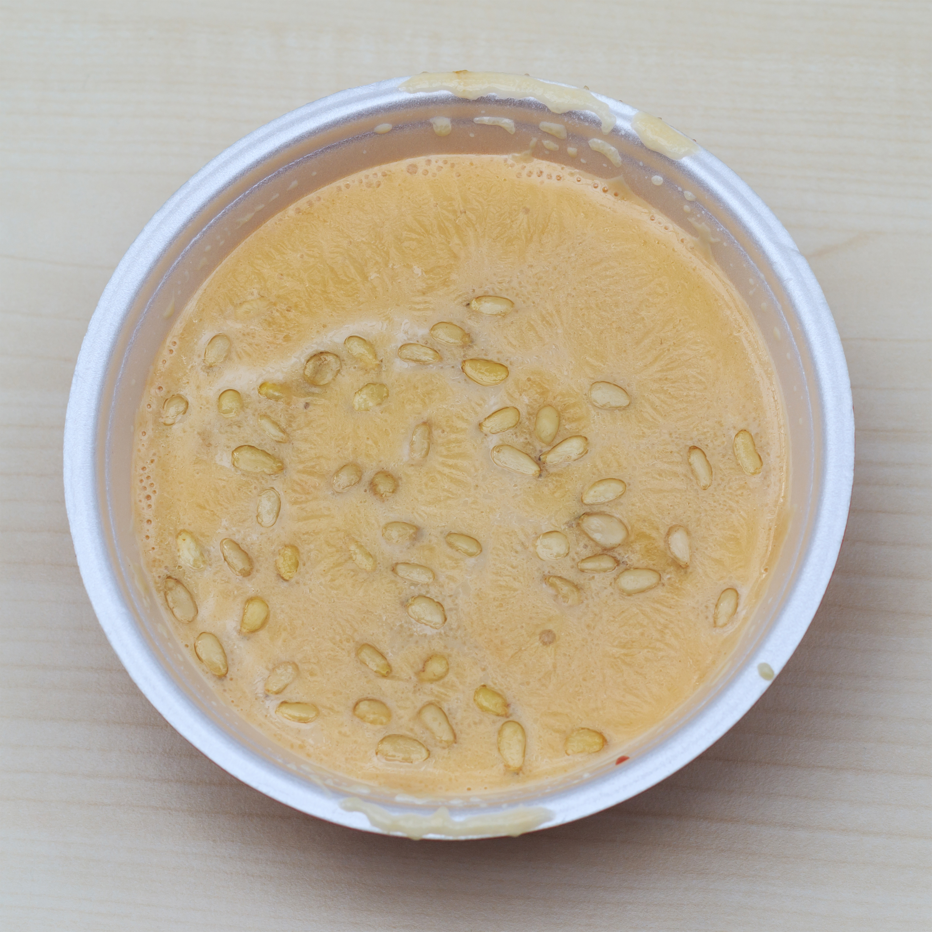 Photo of «Gurievskaya kasha», a Russian dessert that was well-known in the 19th century